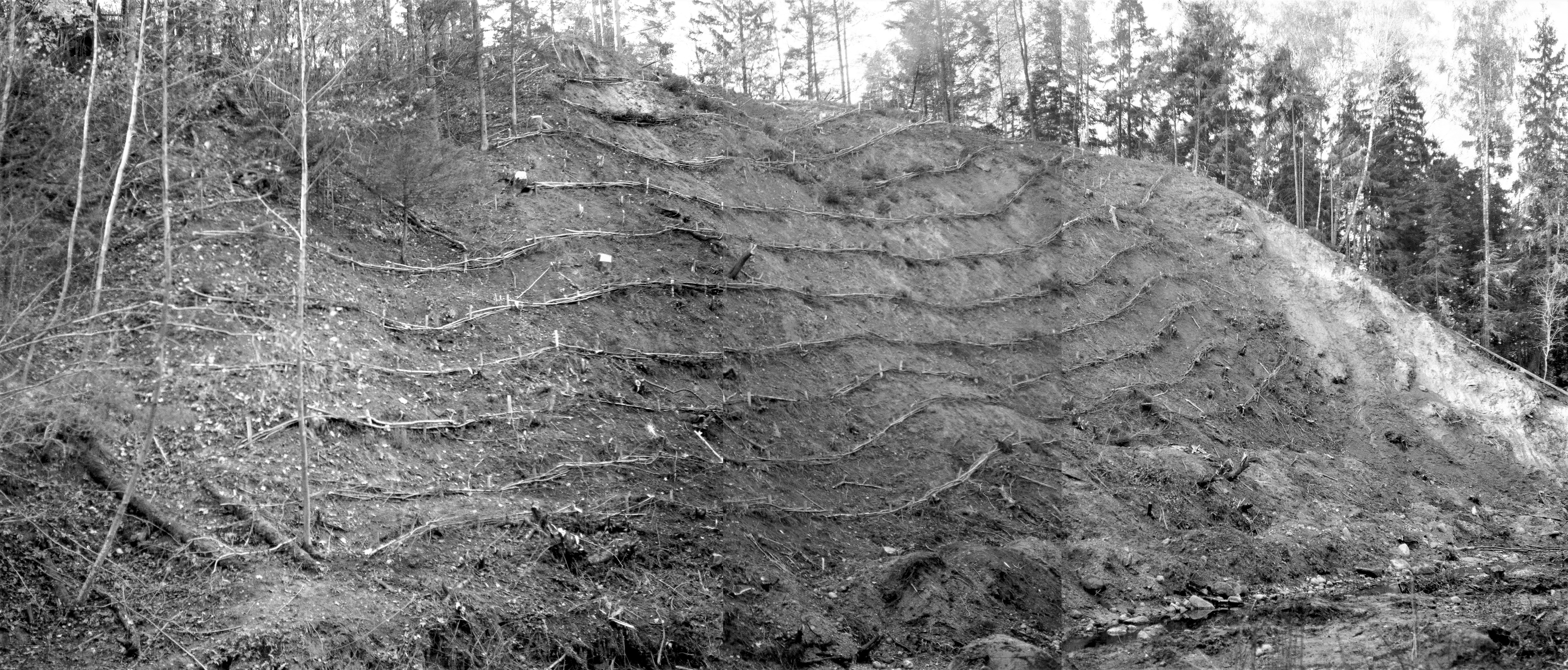 Kačaičiai hillfort, Kretinga district, Lithuania